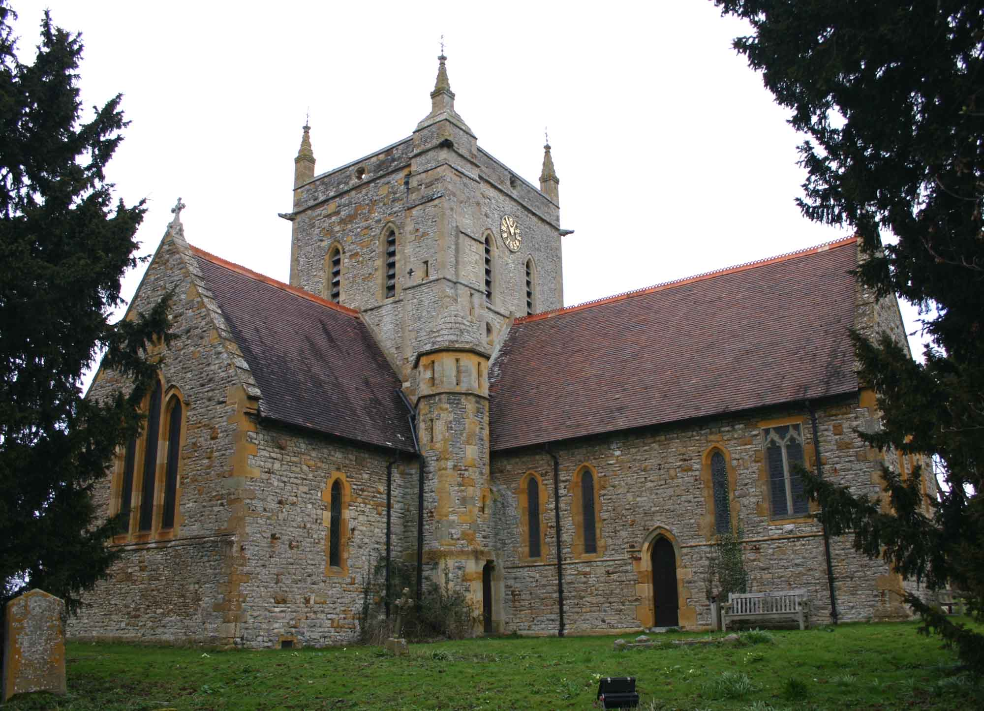 The Minster and Parish Church of Saint Mary and the Holy Cross, Alderminster The SE side of the church.